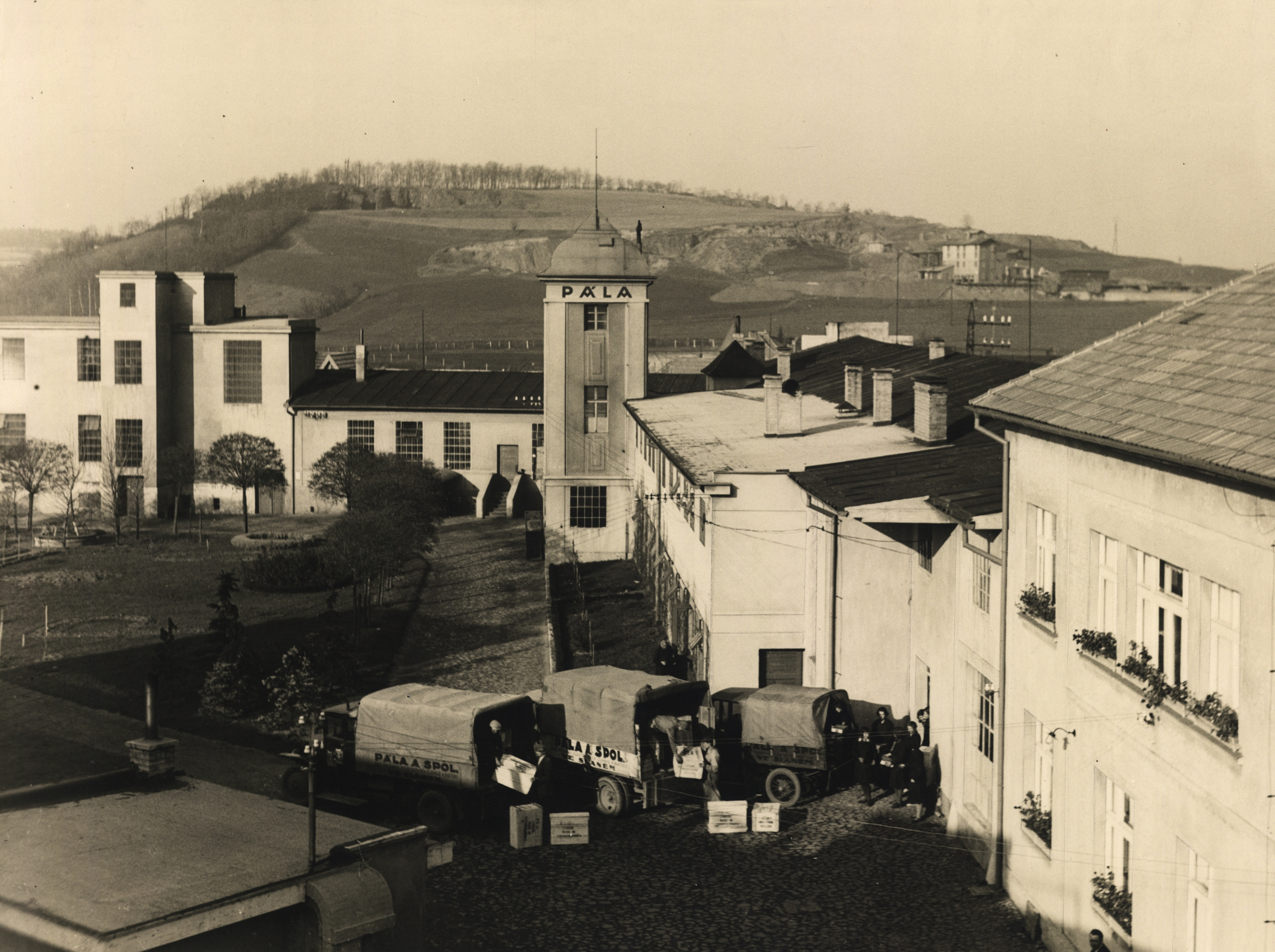 Pálova továrna II. - auta